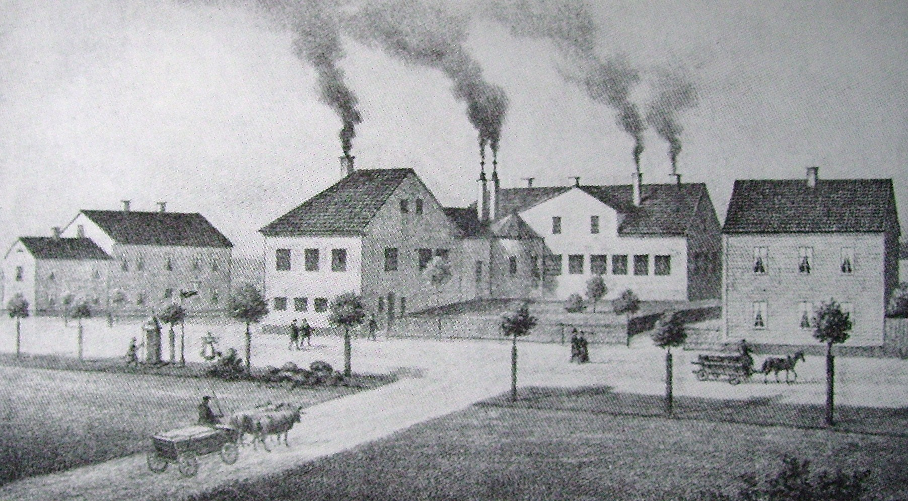 Picture of Öbergs factory in Eskilstuna